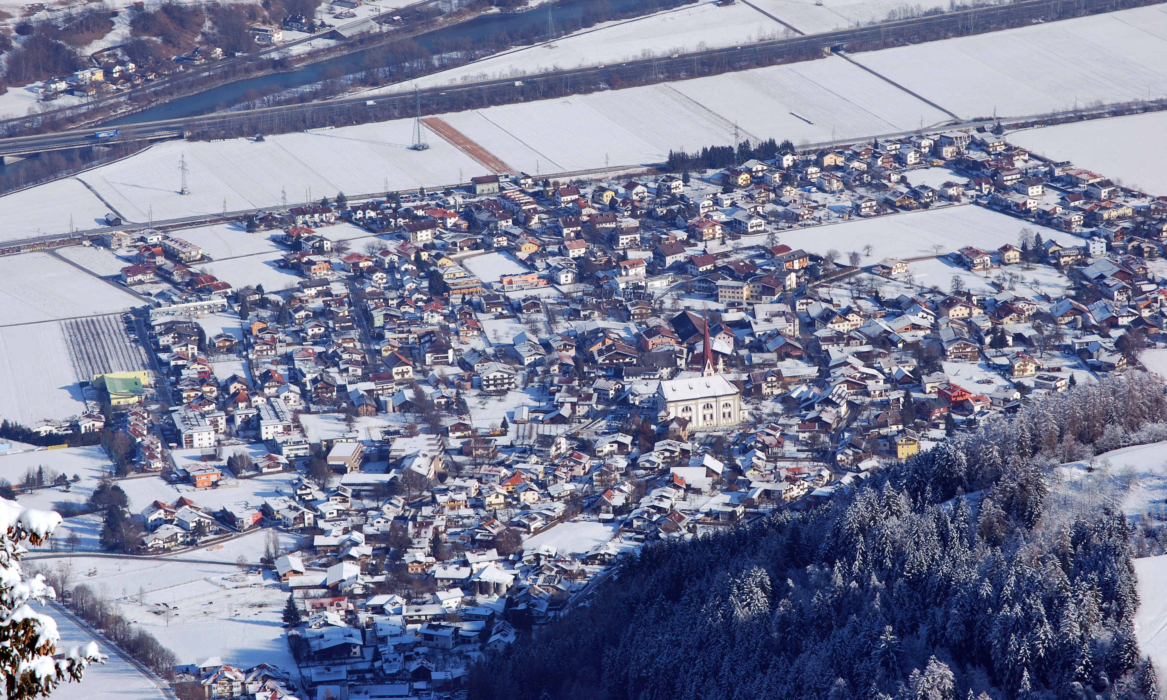 Inzing from South